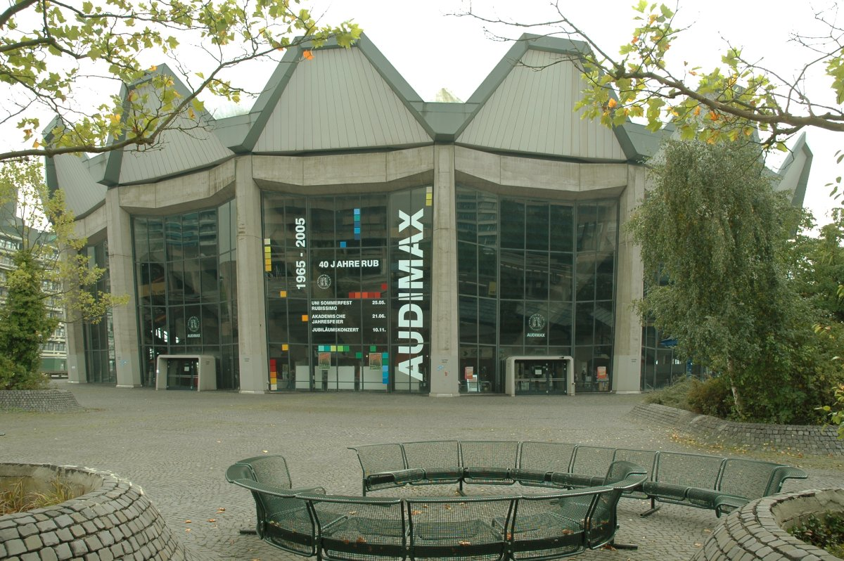 Bochum university, audi max